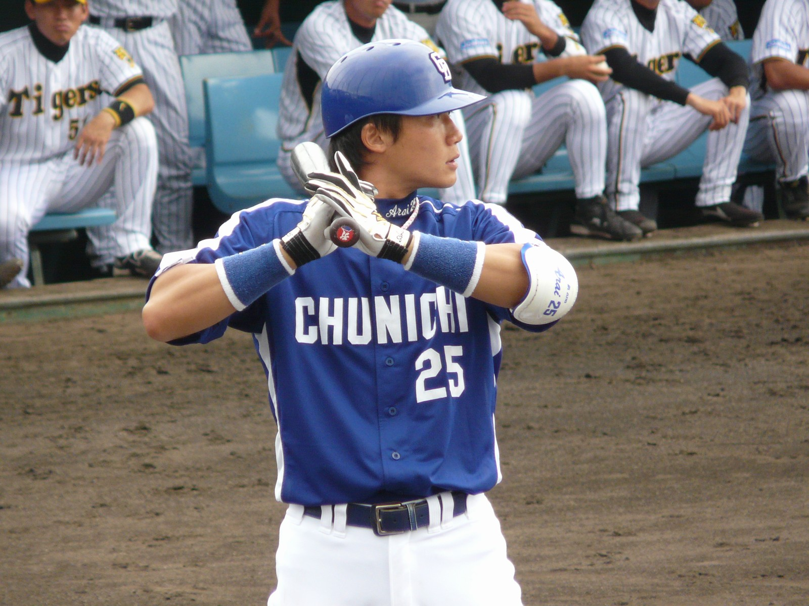 Copied from 画像:CD-Ryota-Arai-1.jpg: "新井良太"